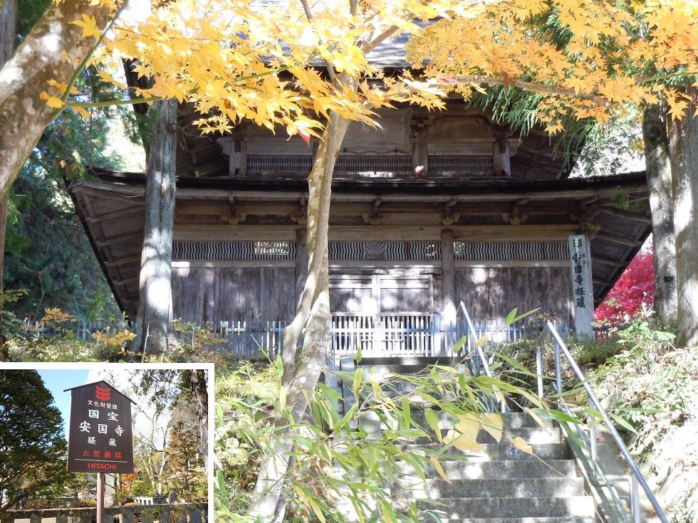 Ankokuji Kyozo Hida-Kokufu Hida-Takayama